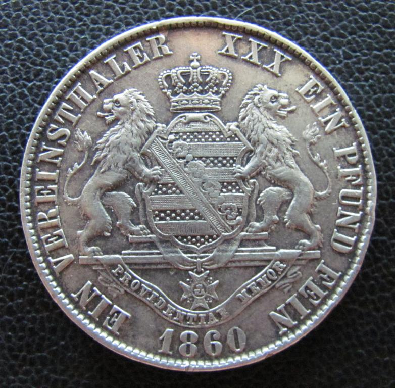 Reverse of vereinstaler Saxony1860. Coinowner gave this photo special for use in article of wikipedia